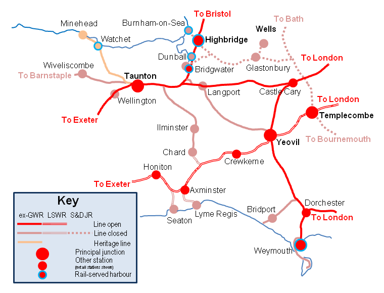 A map (not to scale) showing the railway lines around Taunton and in South Somerset, England.